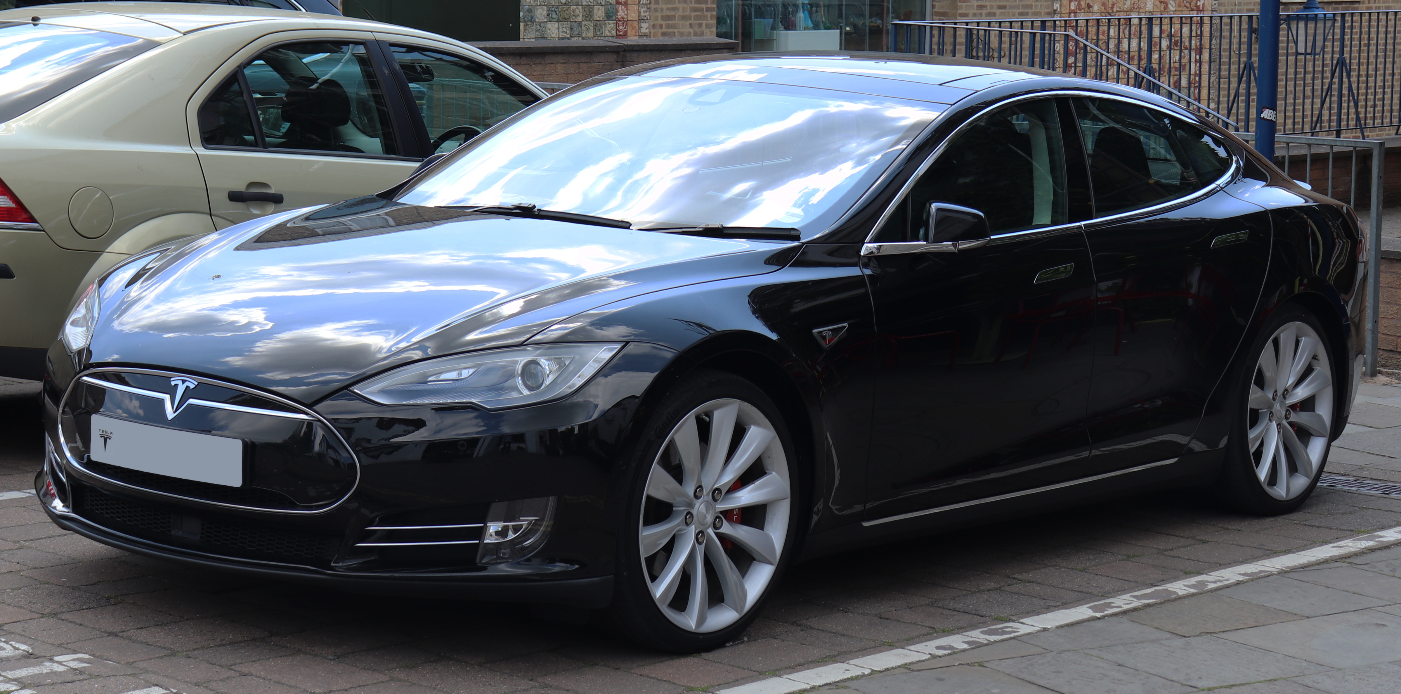 2015 Tesla Model S Taken in Warwick